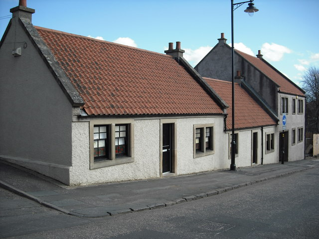 Weavers' cottages Weaving was important in the late 18th - early 19thC.